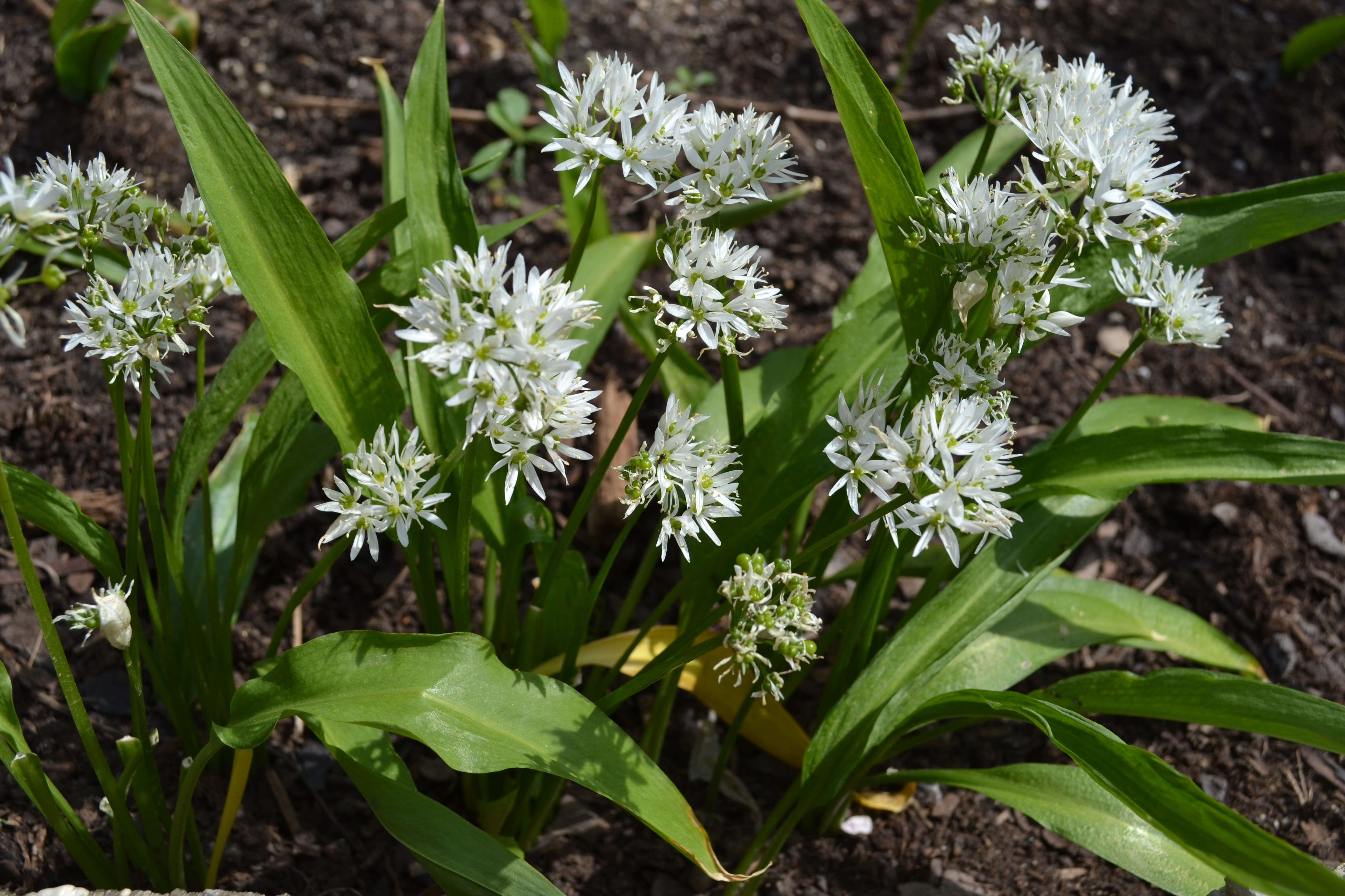 Allium ursinumSlovenčina: Cesnak medvedí